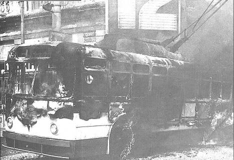 Trolley burnt during the Rosariazo